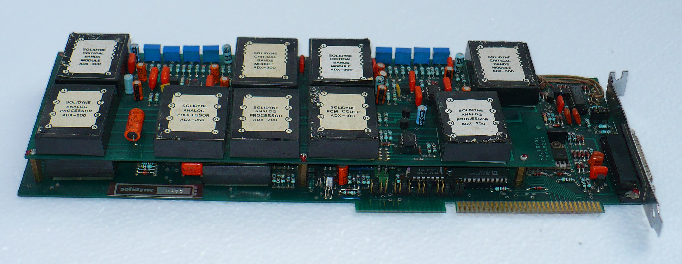 Description = Solidyne ADX922 audio card. Source = User:SLedesma Article = Audicom